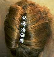 This is a photo of a French twist using one of byrd designs original hair accessories.